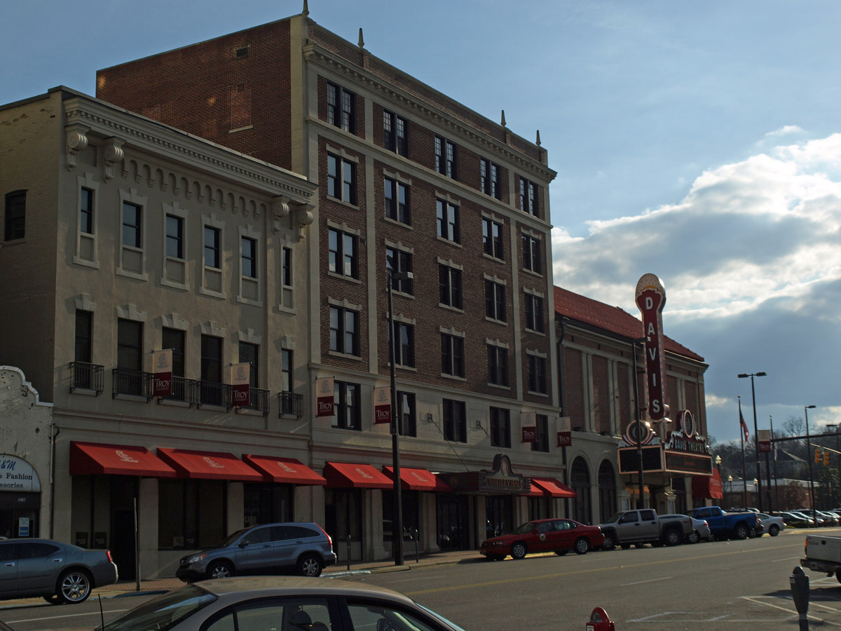 Buildings on Troy University's campus in Montgomery, Alabama. Farthest right is the Davis Theatre for the Performing Arts.